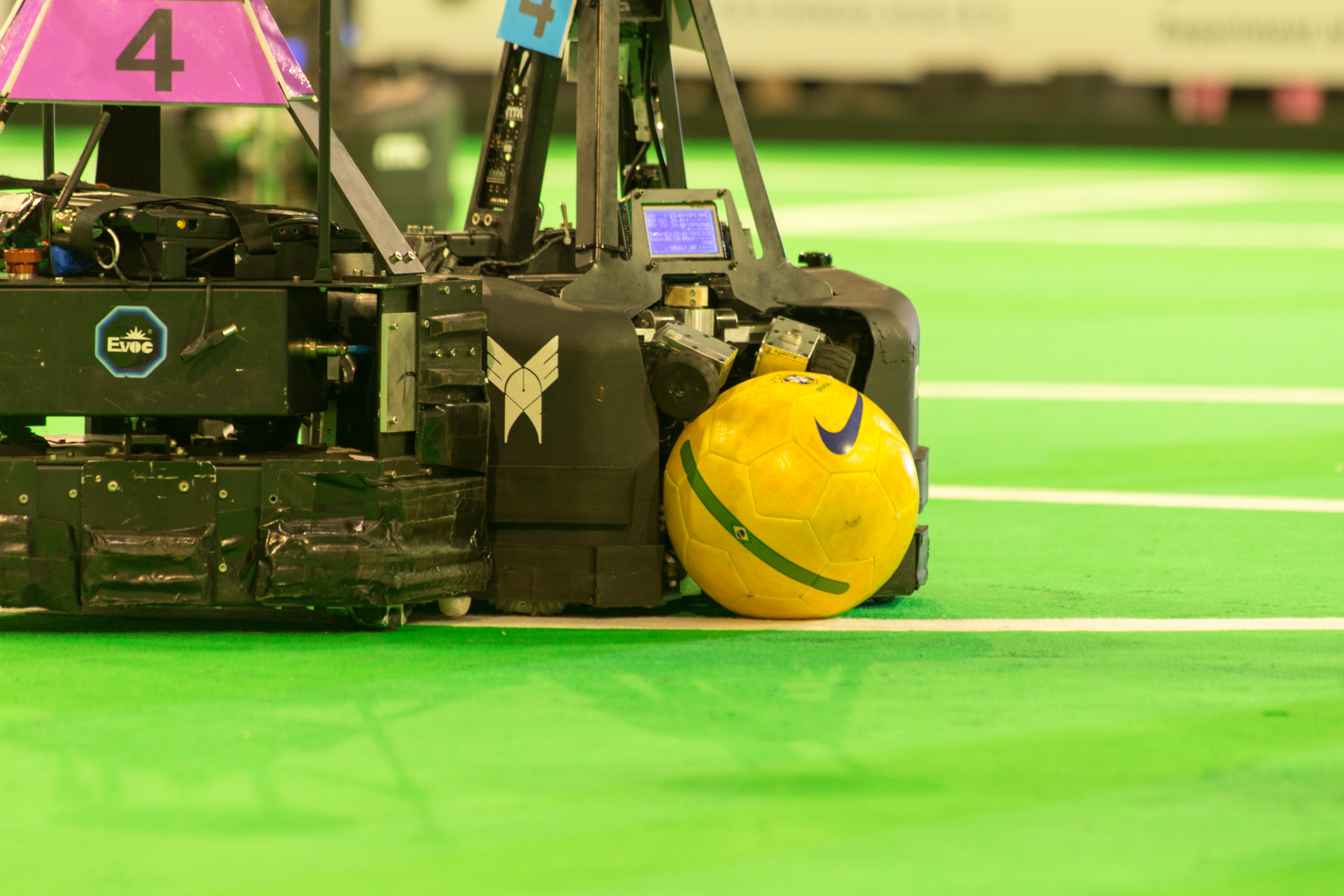 Soccer playing robots of team MRL (Qazvin Islamic Azad University, Iran) and team Water (Beijing Information Science & Technology University, China). Picture made by Albert van Breemen during RoboCup 2013 in Eindhoven.